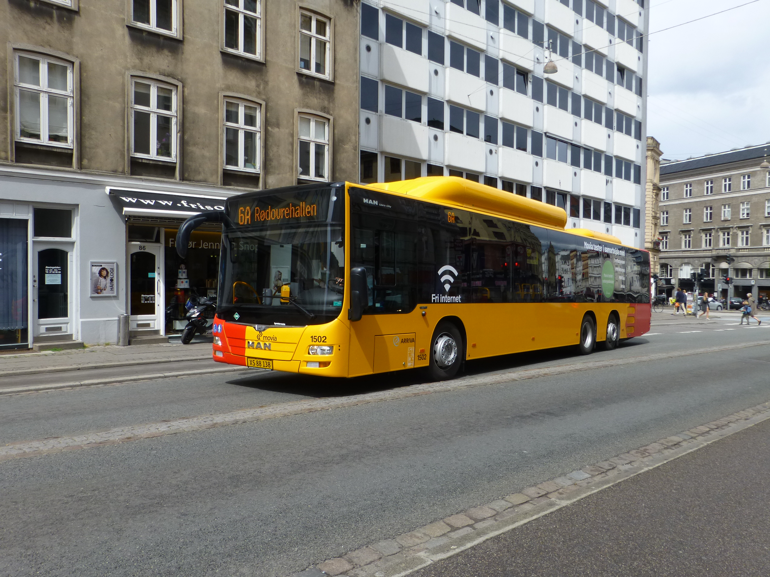 Movia bus line 6A on Vesterbrogade in Vesterbro in Copenhagen. Test with bus driven by natural gas.